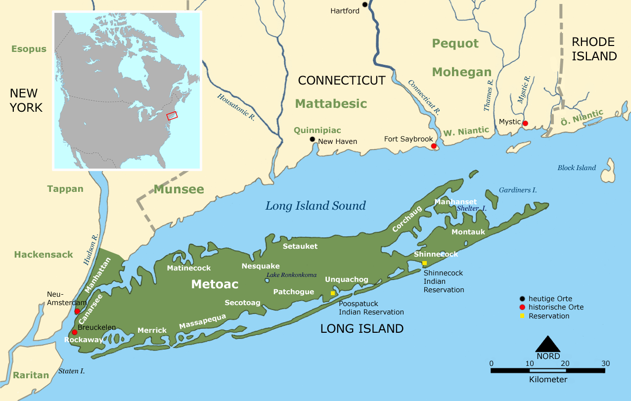 Description: Tribal territories of Long Island Creator: User:Nikater and User:ish ishwar (small map) Uploader: User:Nikater Date: July 21 2006 Other Versions: no License status